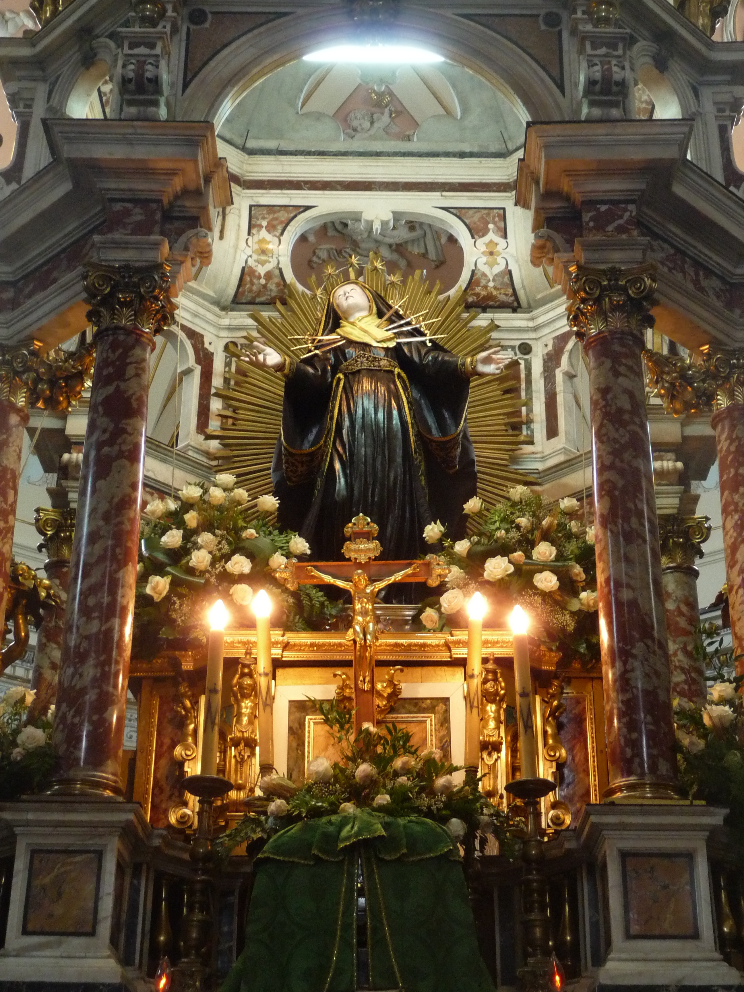 Sette Dolori's church Madonna at Serra San Bruno (VV - Italy)